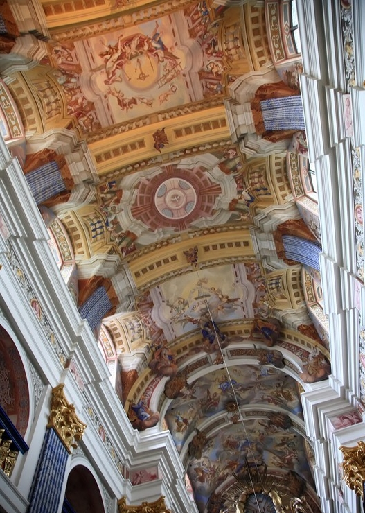 Święta Lipka, (Poland, Warminian-Masurian Voivodship), view of sancturay of St. Mary